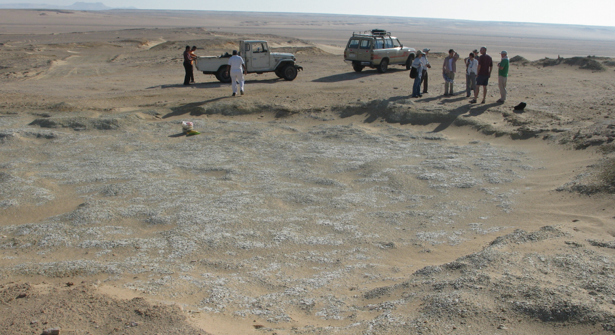 Jebel Qatrani Formation